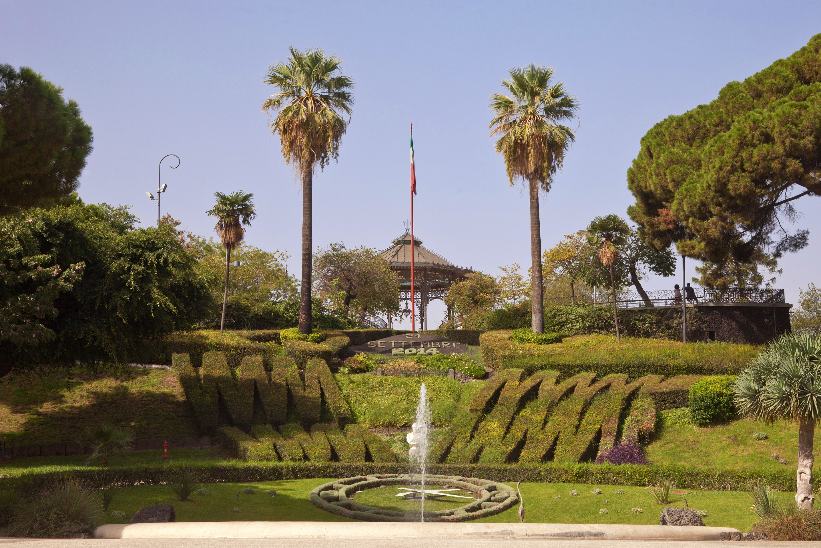 Catania, Sicily, park "Villa Bellini"